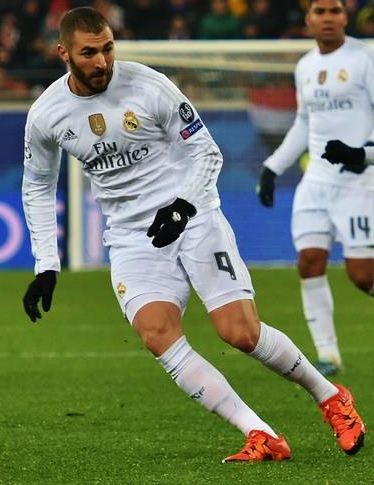 Karim Benzema